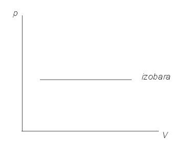 PV-diagram for Isobaric process with Czech description